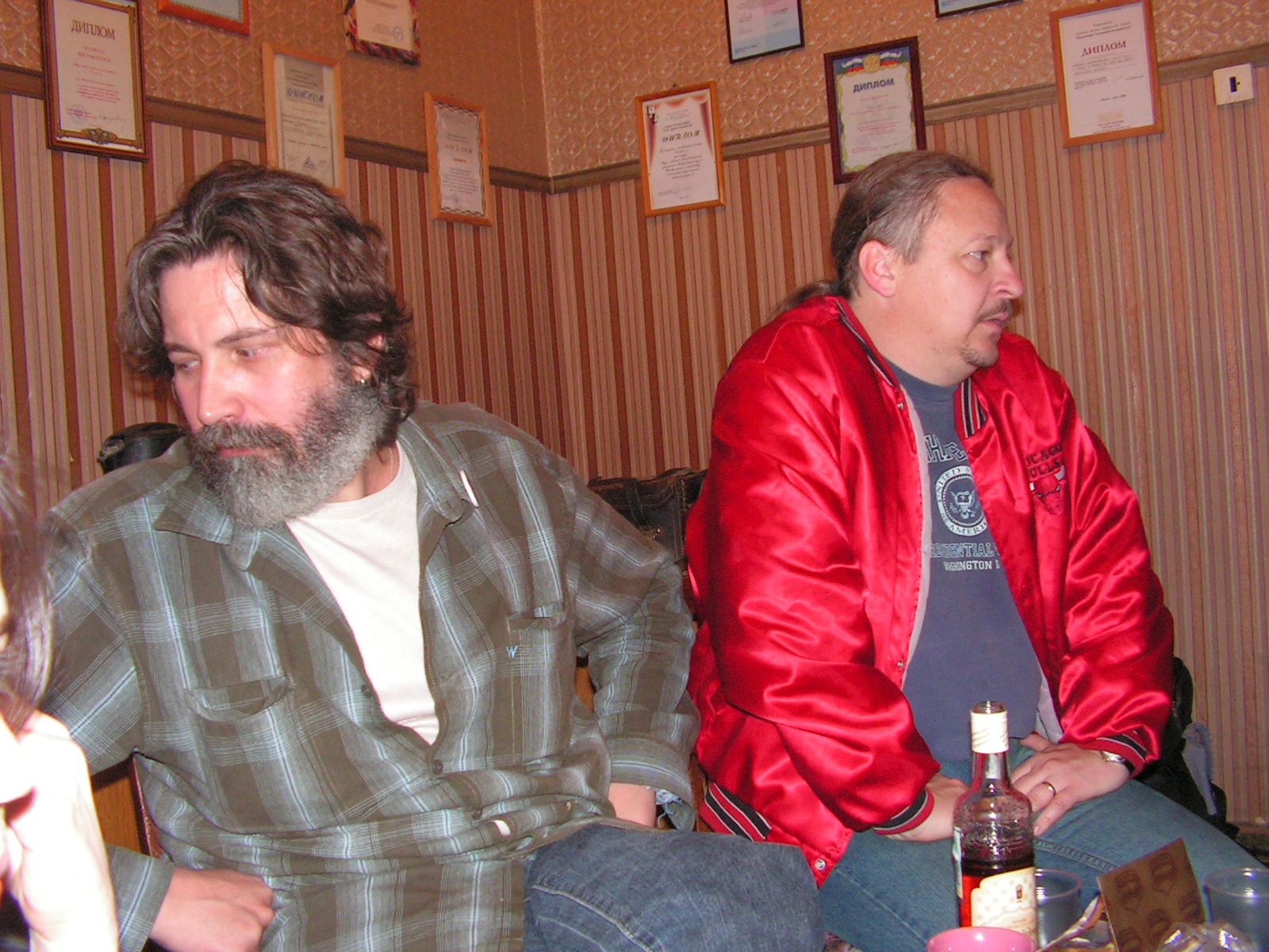 Playwright Vadim Levanov and founder of the "Belarusian free theatre" Nikolay Khalezin after the main program of the "May readings" festival. Utility room theatrical centre "Golosova 20", Tsentralny district, Togliatti, Russia. 28 may 2006.